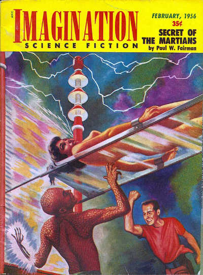 Cover of Imagination, February 1956